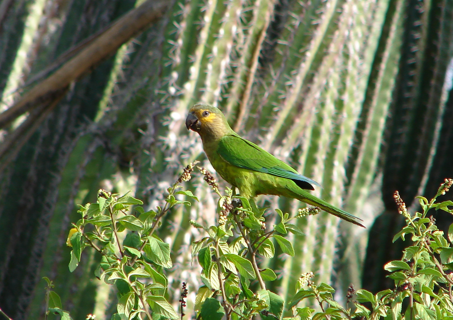 Brown-throated Parakeet in Aruba's national park.